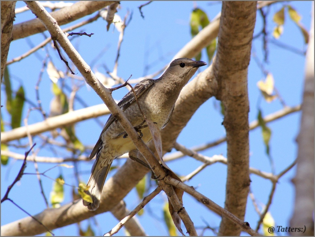 Great Bowerbird, Queensland Bowerbird, Grey Bowerbird (Chlamydera nuchalis).